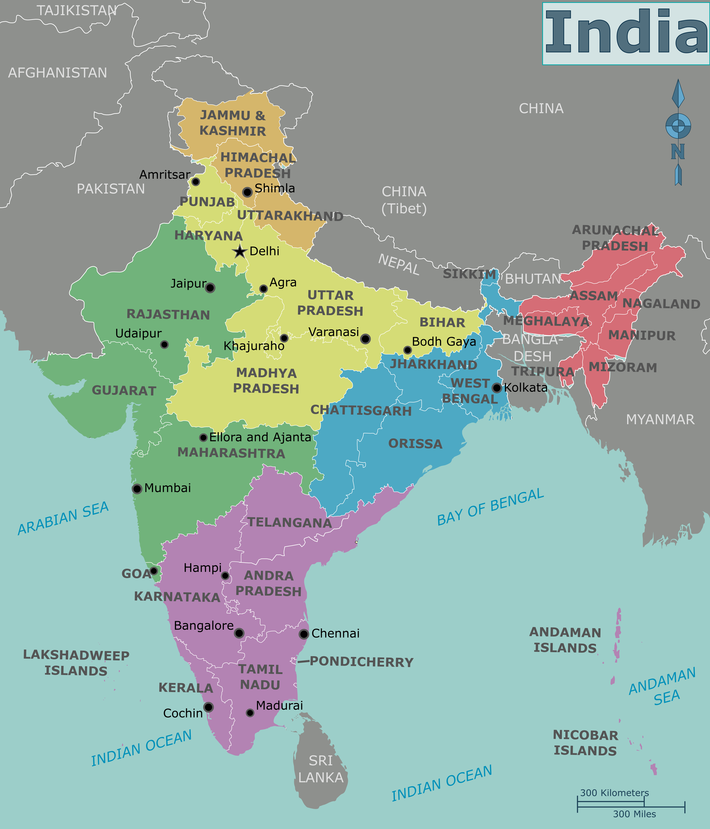 Map of India. A map of India's regions, states and metropolis', India Map of: India¤.